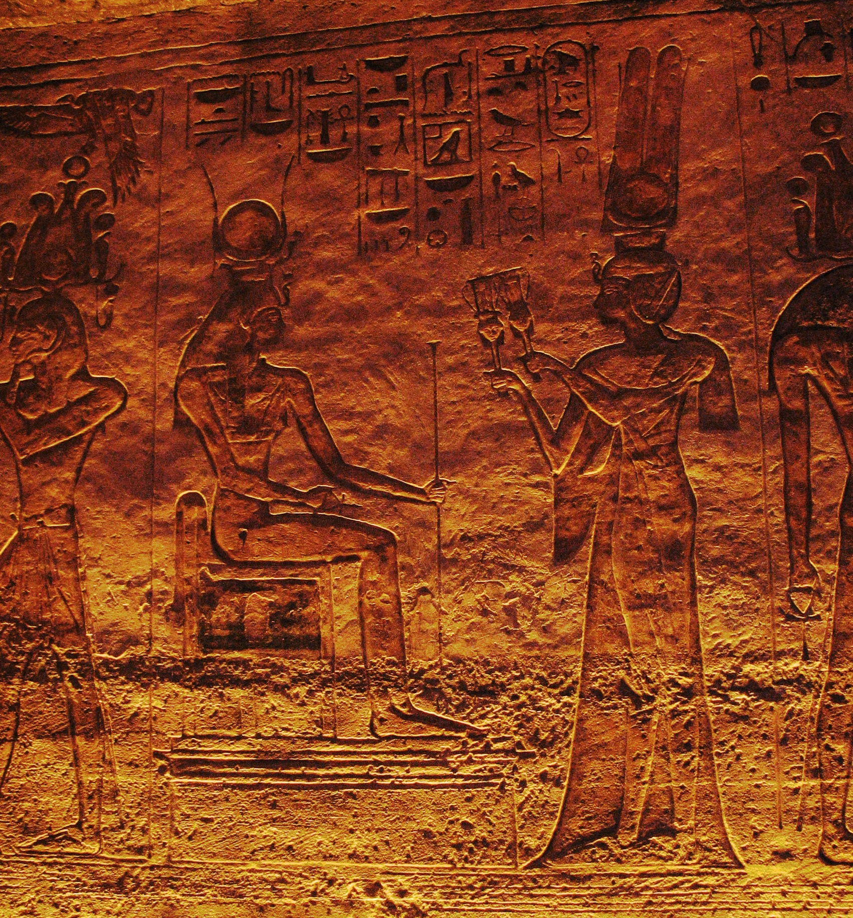 Nefertari offering sistrums to the seated goddess Hathor in the smaller temple at Abu Simbel.